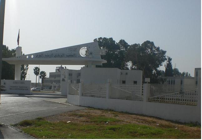 Institute of Meteorology-Tunis